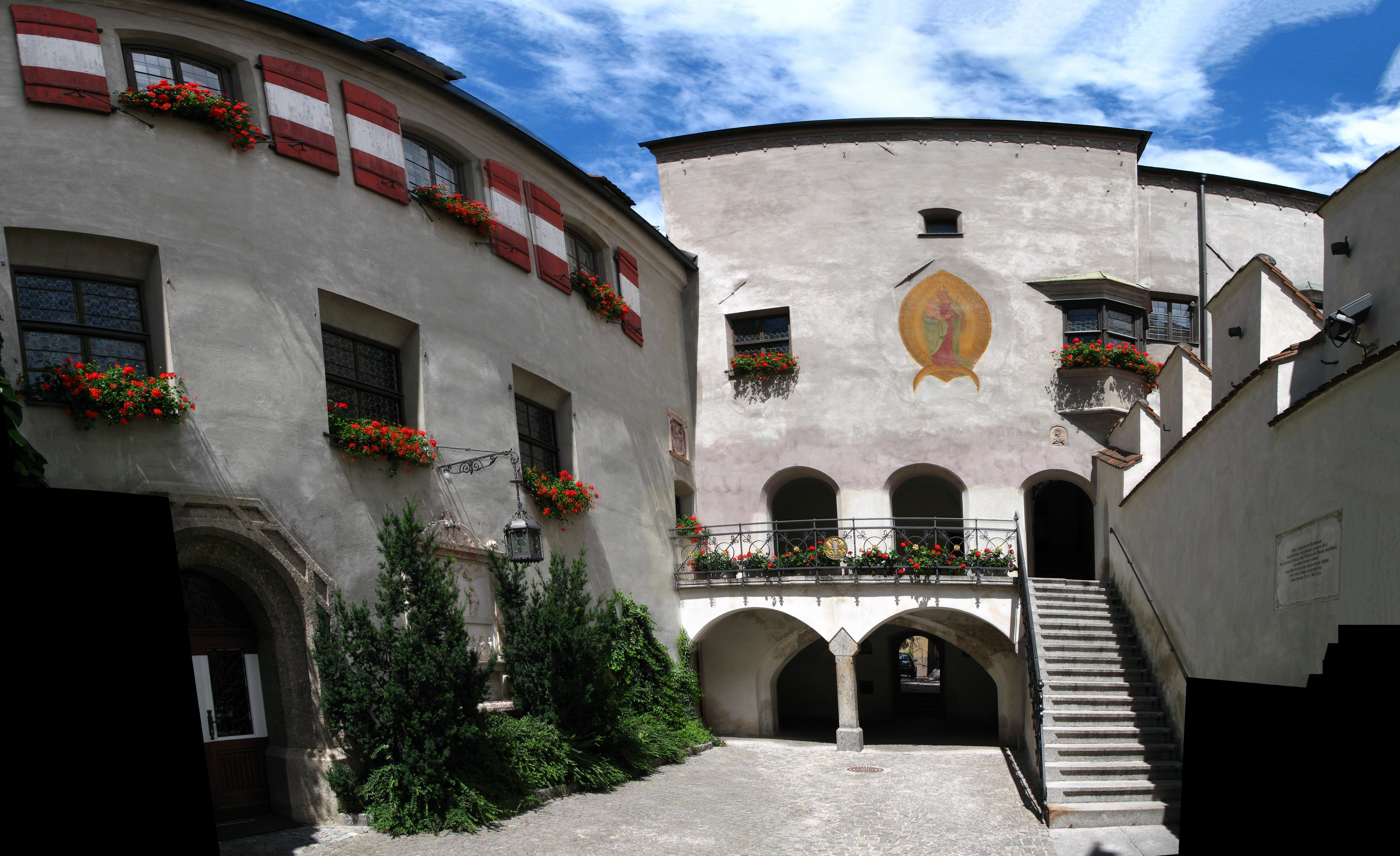 City Hall, Hall in Tirol, Austria This is a retouched picture, which means that it has been digitally altered from its original version. Modifications: Filled in sky and a portion of wall on the right side.